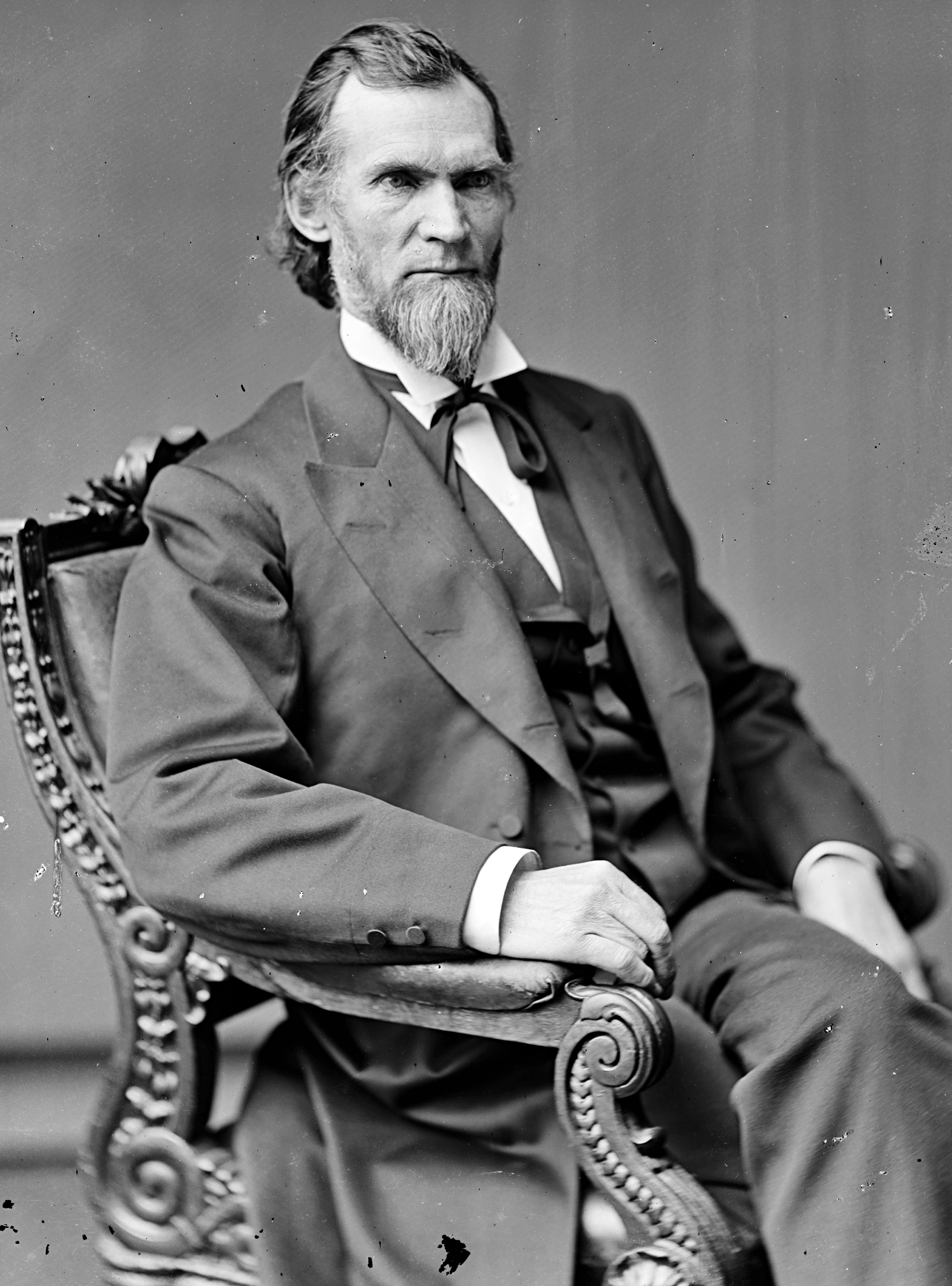 William S. Holman, US Representative from Indiana